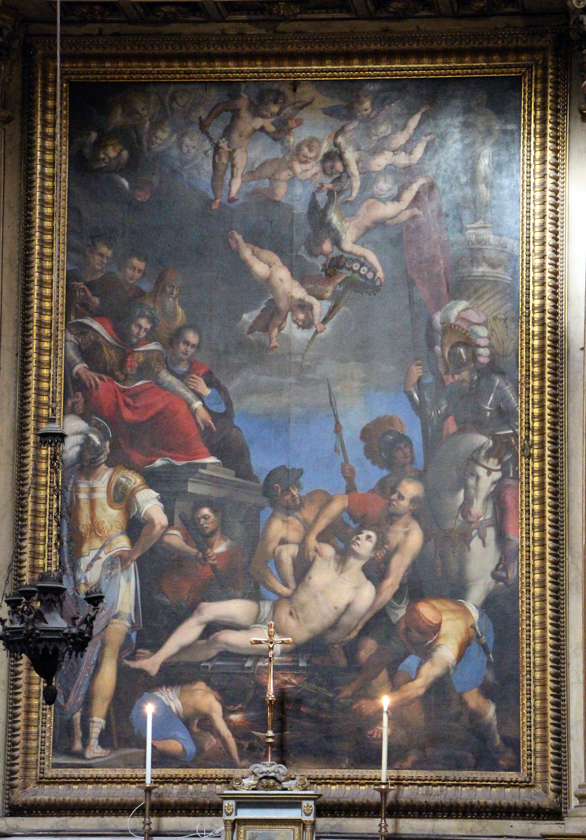 Martyrdom of Saint Lawrence by Jacopo Ligozzi